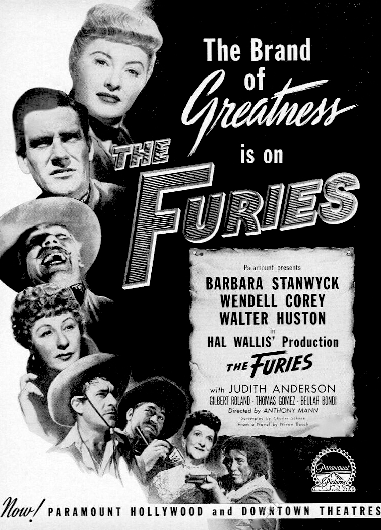 Promotional poster for The Furies